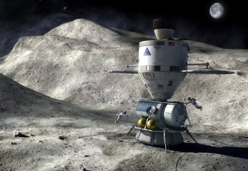 Orion Manned asteroid landing